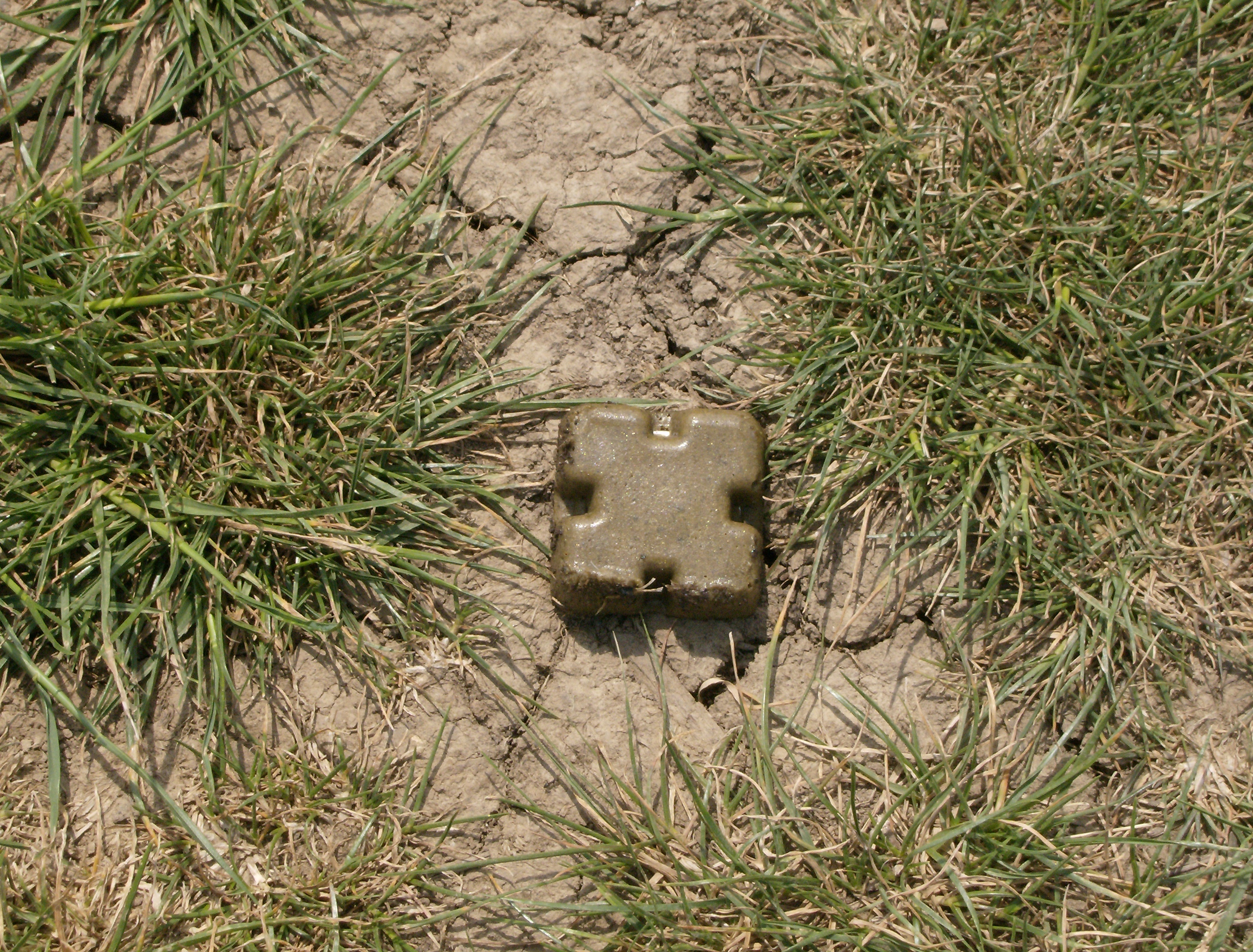 Lysvulpen